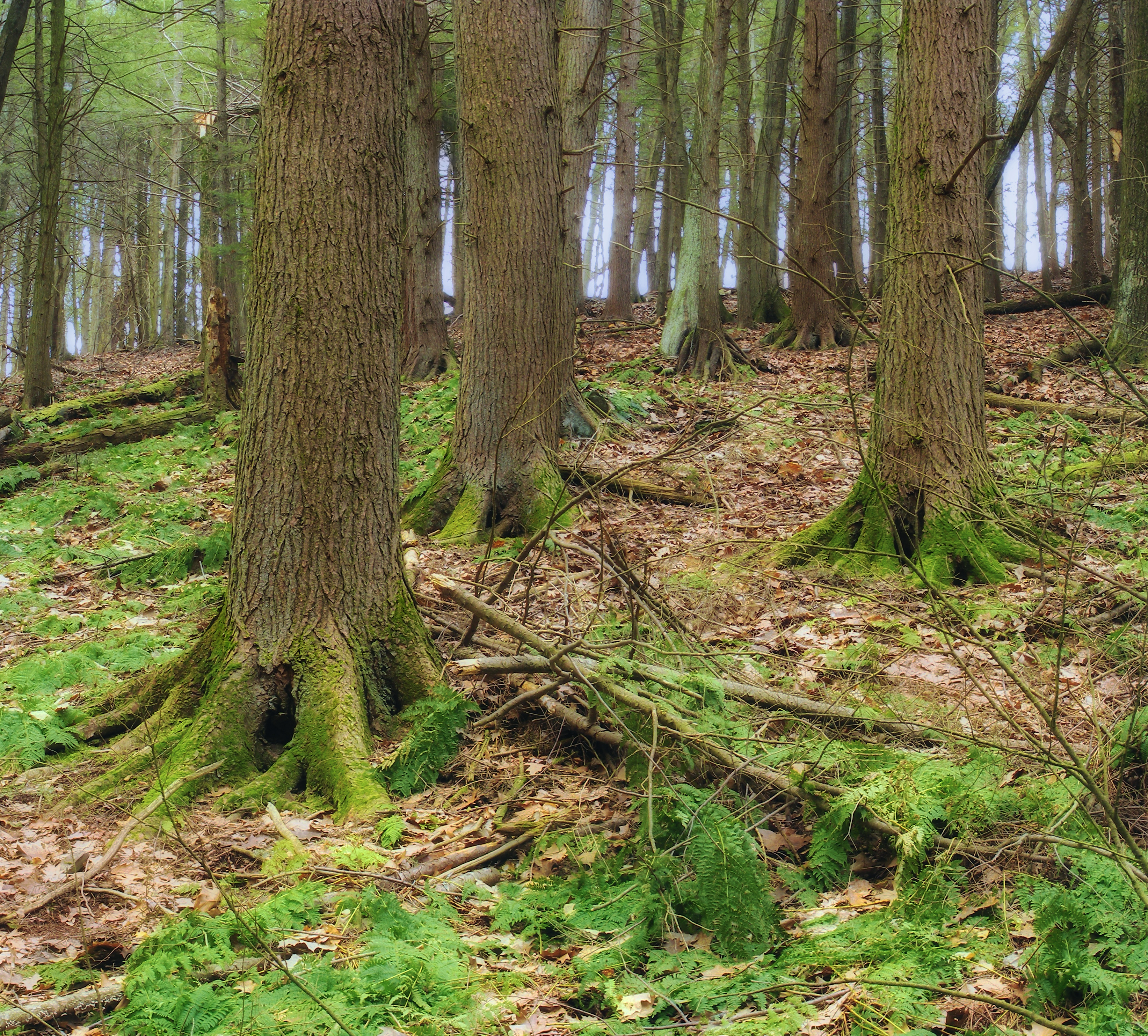 Jakey Hollow Natural Area, Weiser State Forest, Columbia County. The natural area protects a small tract of old-growth hemlocks, white pines, and northern hardwoods in a deep ravine.